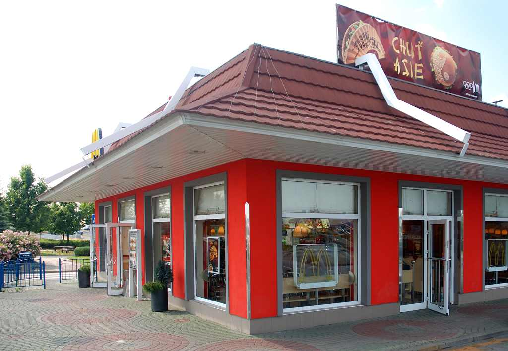 McDonald's restaurant at Praha-Zličín, Czech Republic